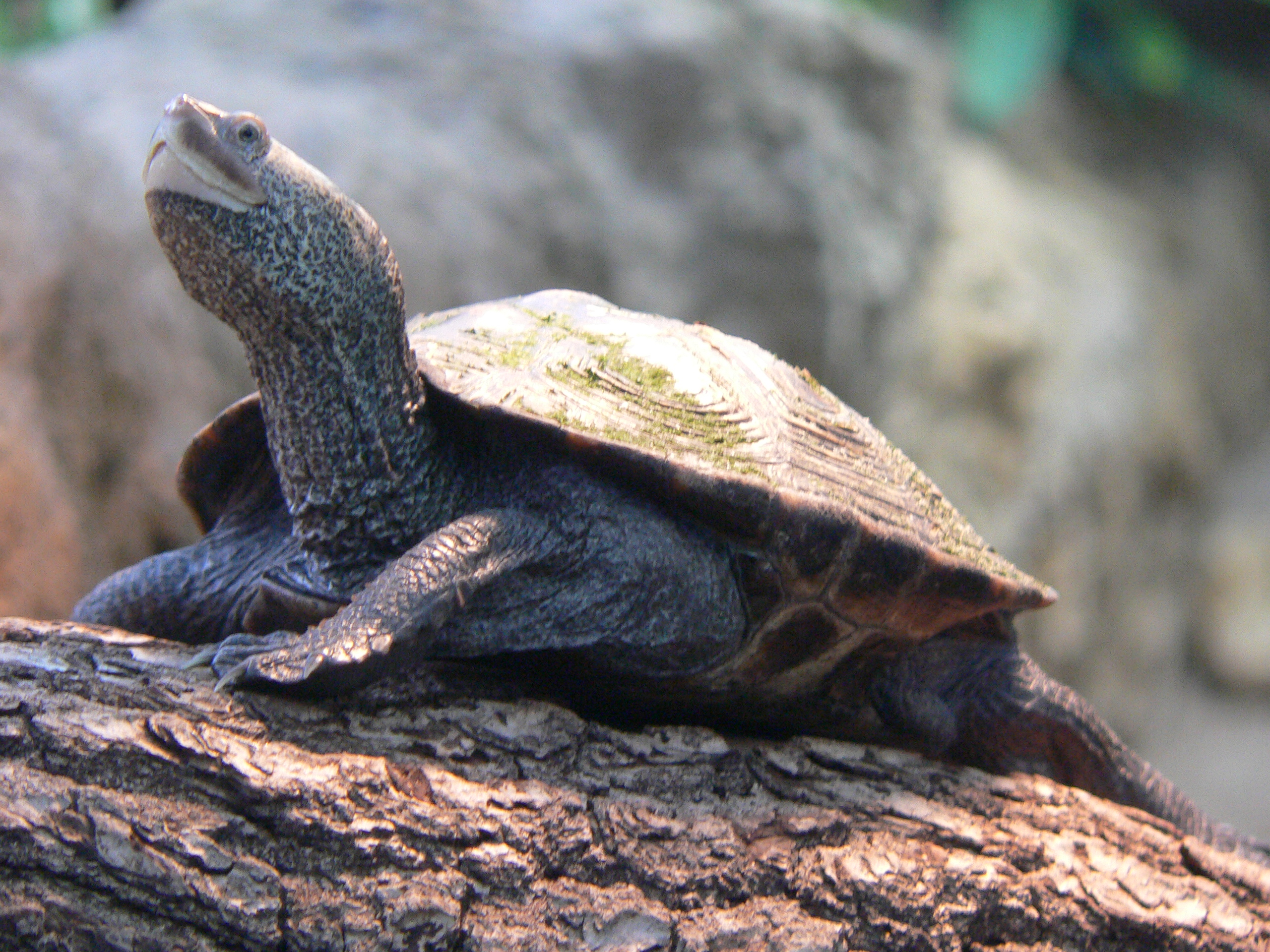 Diamandback turtle